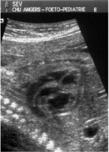 TGV - echo foetal aorte